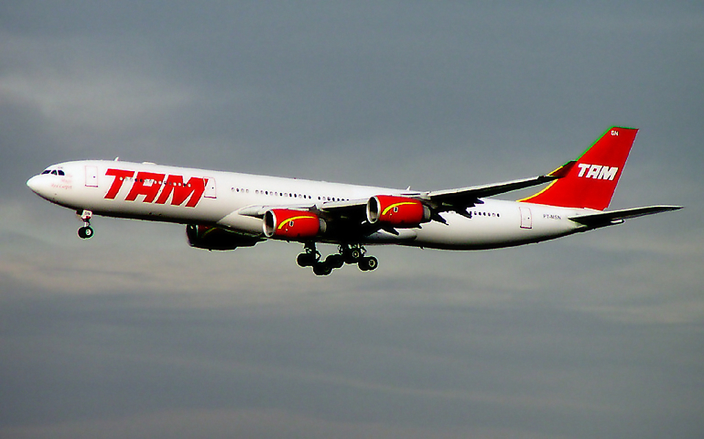 TAM Linhas Aéreas Airbus A340-500 (PT-MSN) in Frankfurt (EDDF/FRA)